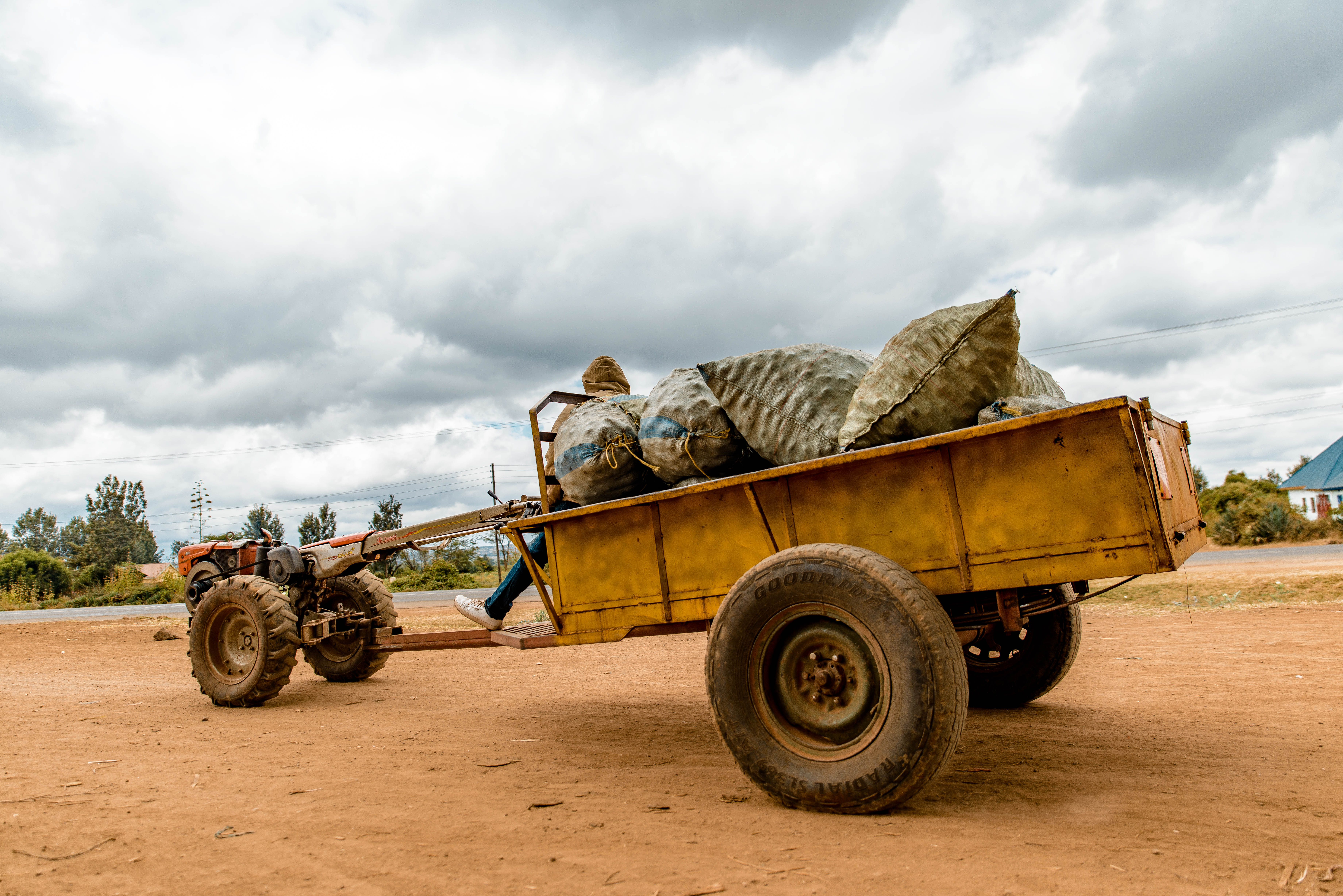 This tractor amaze in every second This is an image with the theme "Africa on the Move or Transport" from: Tanzania